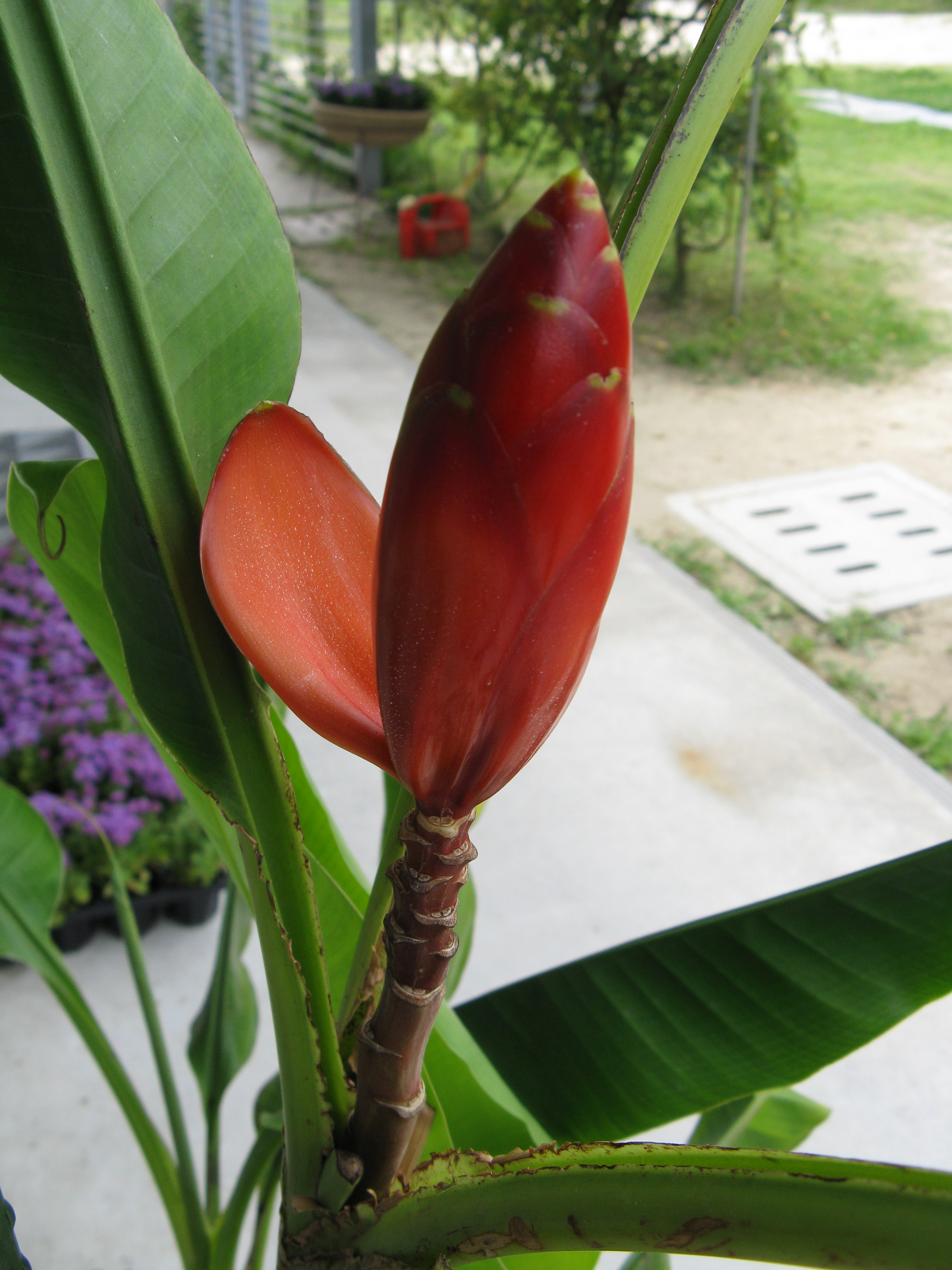 Scientific name Musa beccarii var. hottana Place:Botanical Gardens Faculty of Science Osaka City University,Osaka,Japan